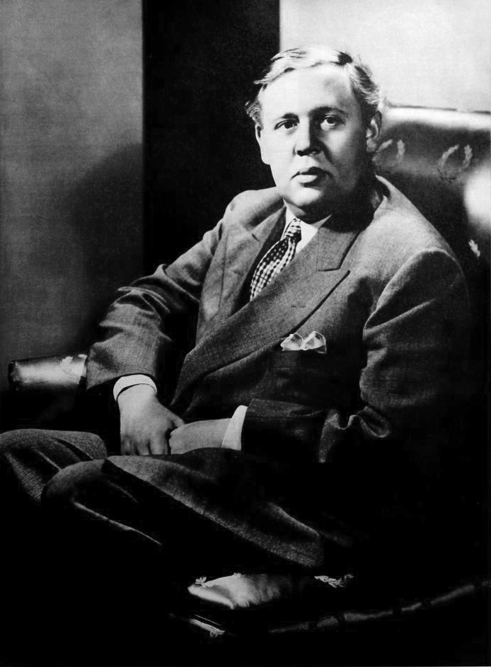 Portrait photograph of actor Charles Laughton